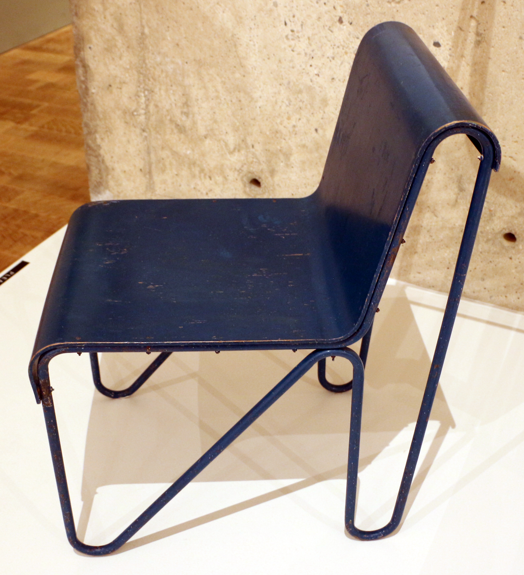 Furniture in the Milwaukee Art Museum